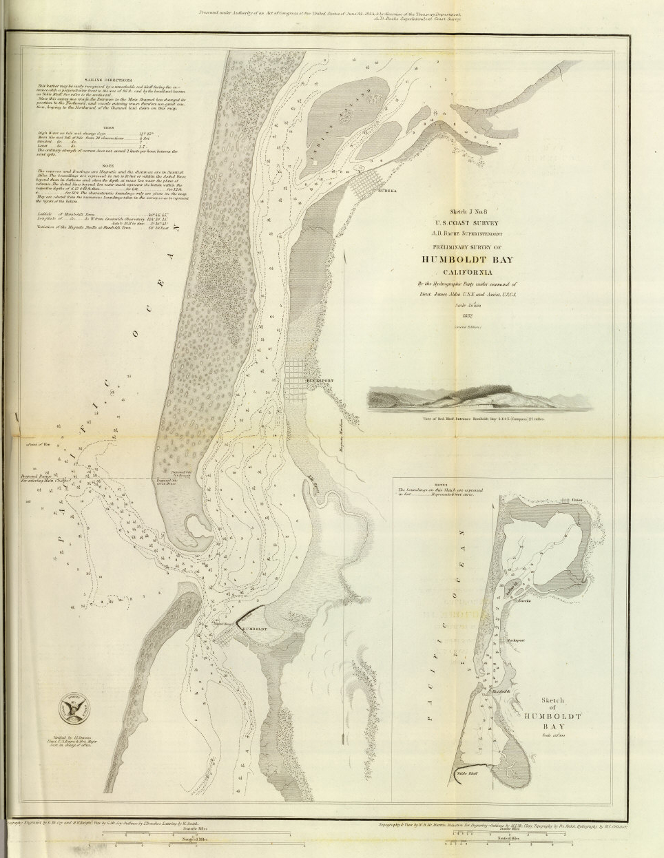 A U.S. Coast Survey map of Humboldt Bay, Humboldt County, California. Surveying for this map commenced in 1850, it was published in 1852.